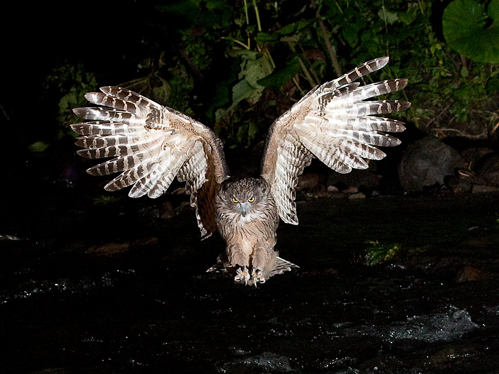 Blakiston's fish owl. Japan.